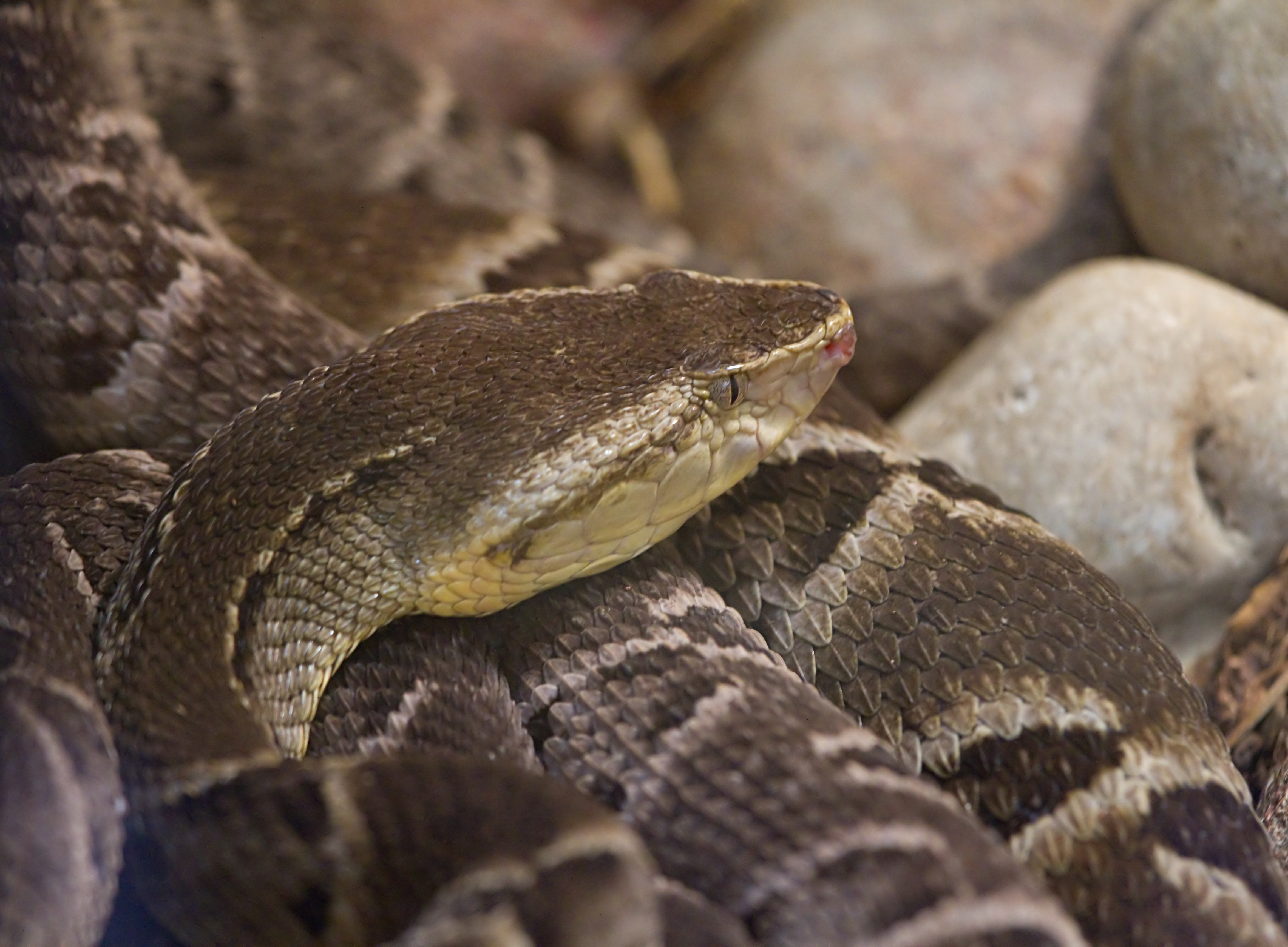 Brazilian Lancehead at the Cincinnati Zoo